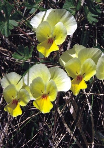 Viola eximia